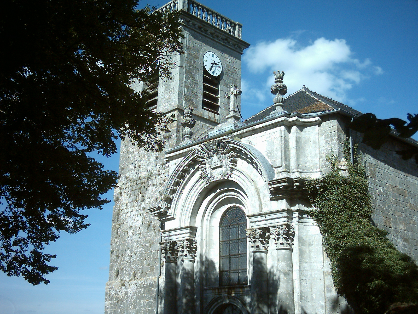 Higher church of Bourmont (52150, France)